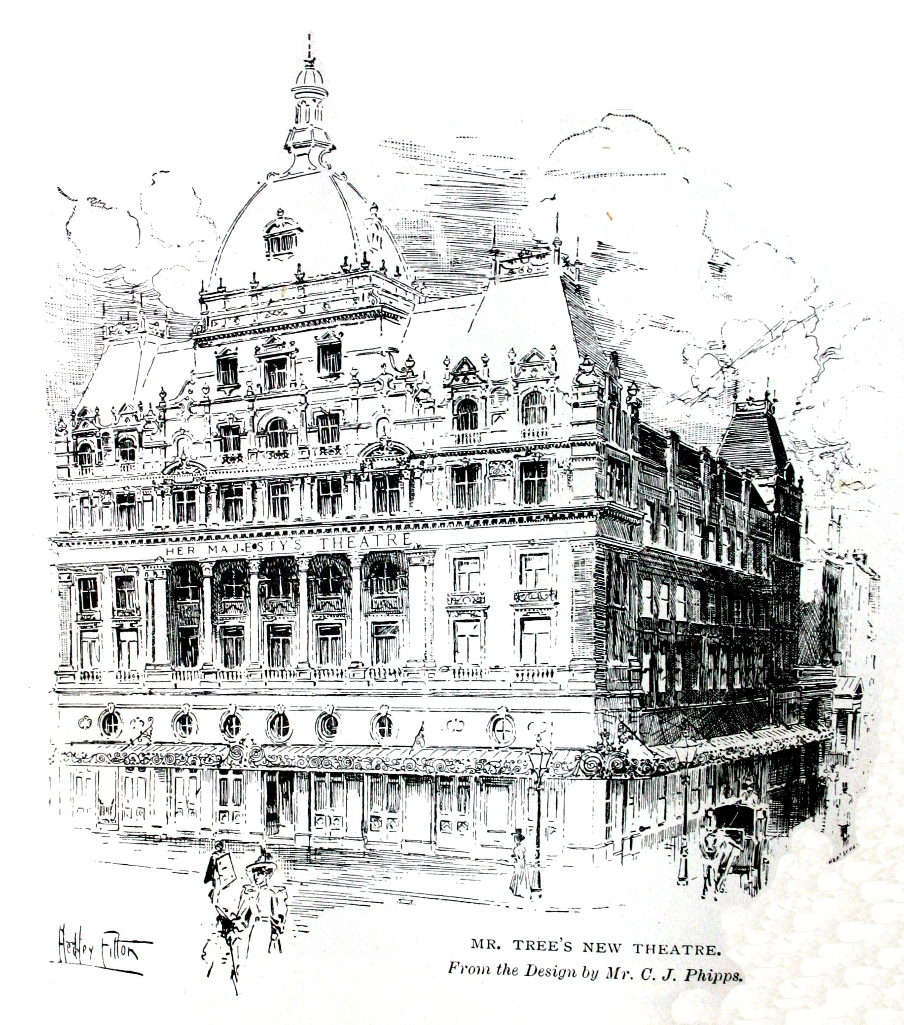 Architectural engraving of "Her Majesty's Theatre", London